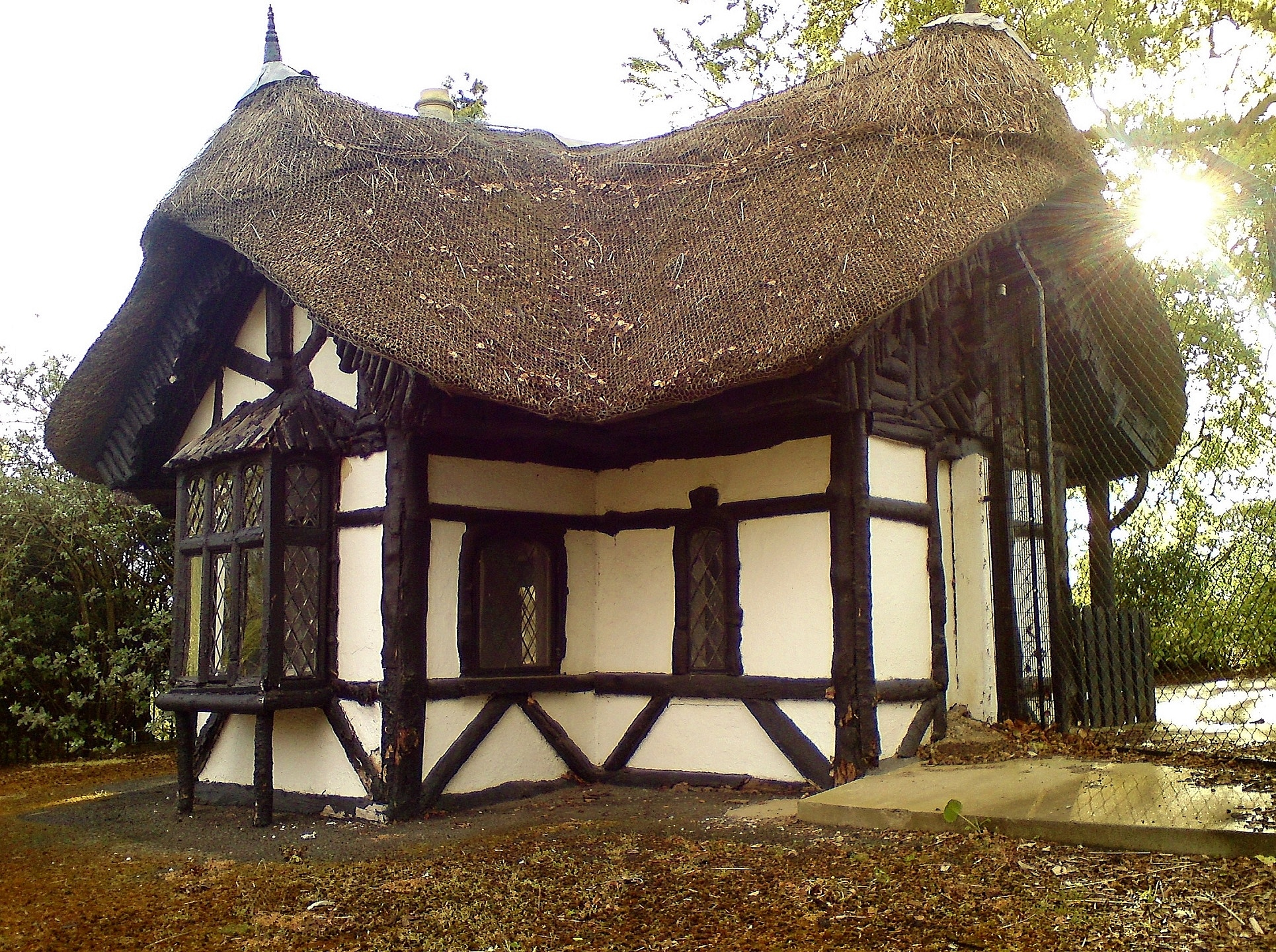 This entrance lodge was built in 1833, and although unoccupied now, it was originally a home for staff and and is located at the entrance to the zoo. Photographed by Damien Slattery.